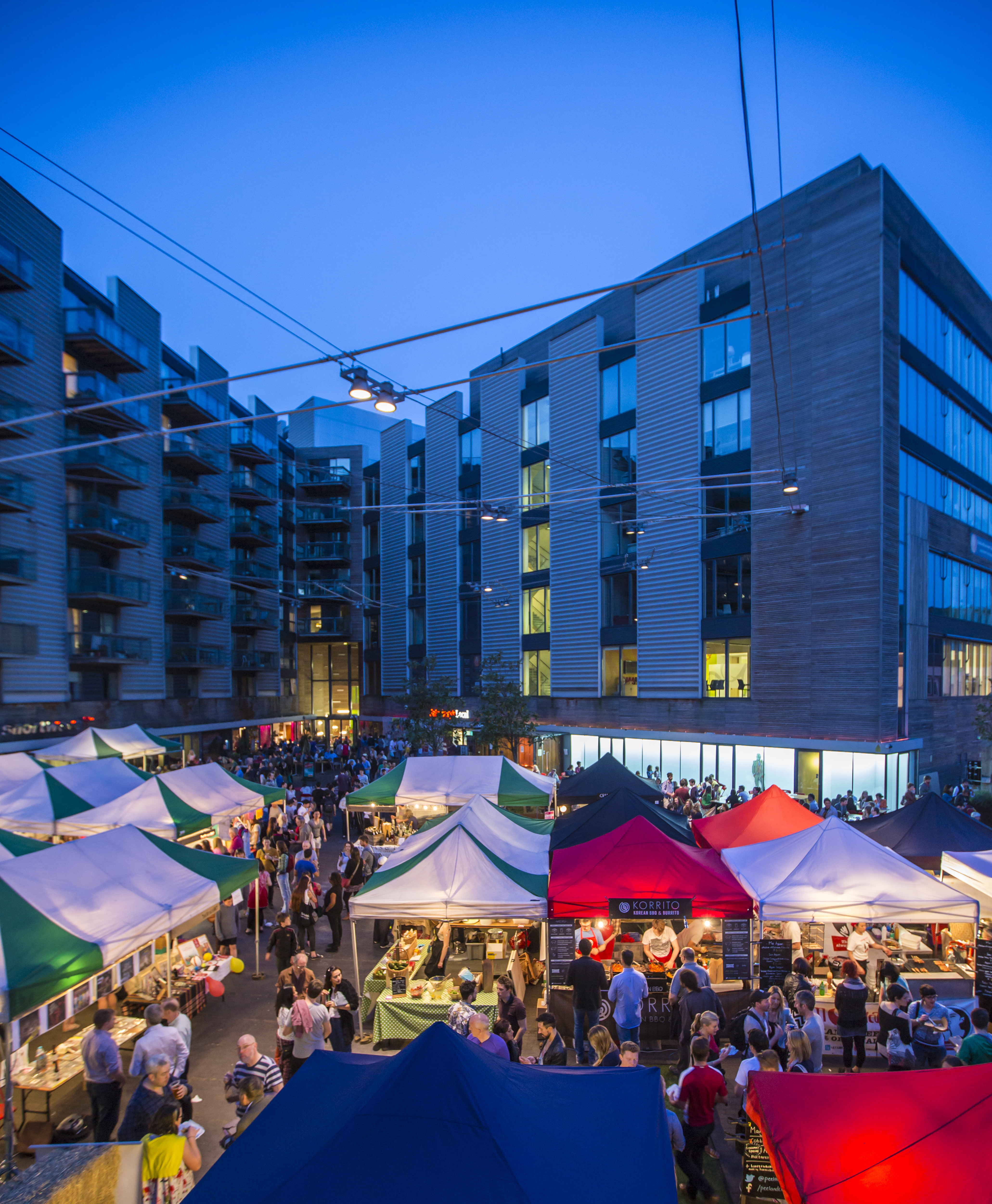 StockMKT Bermondsey night market at Bermonsey Square